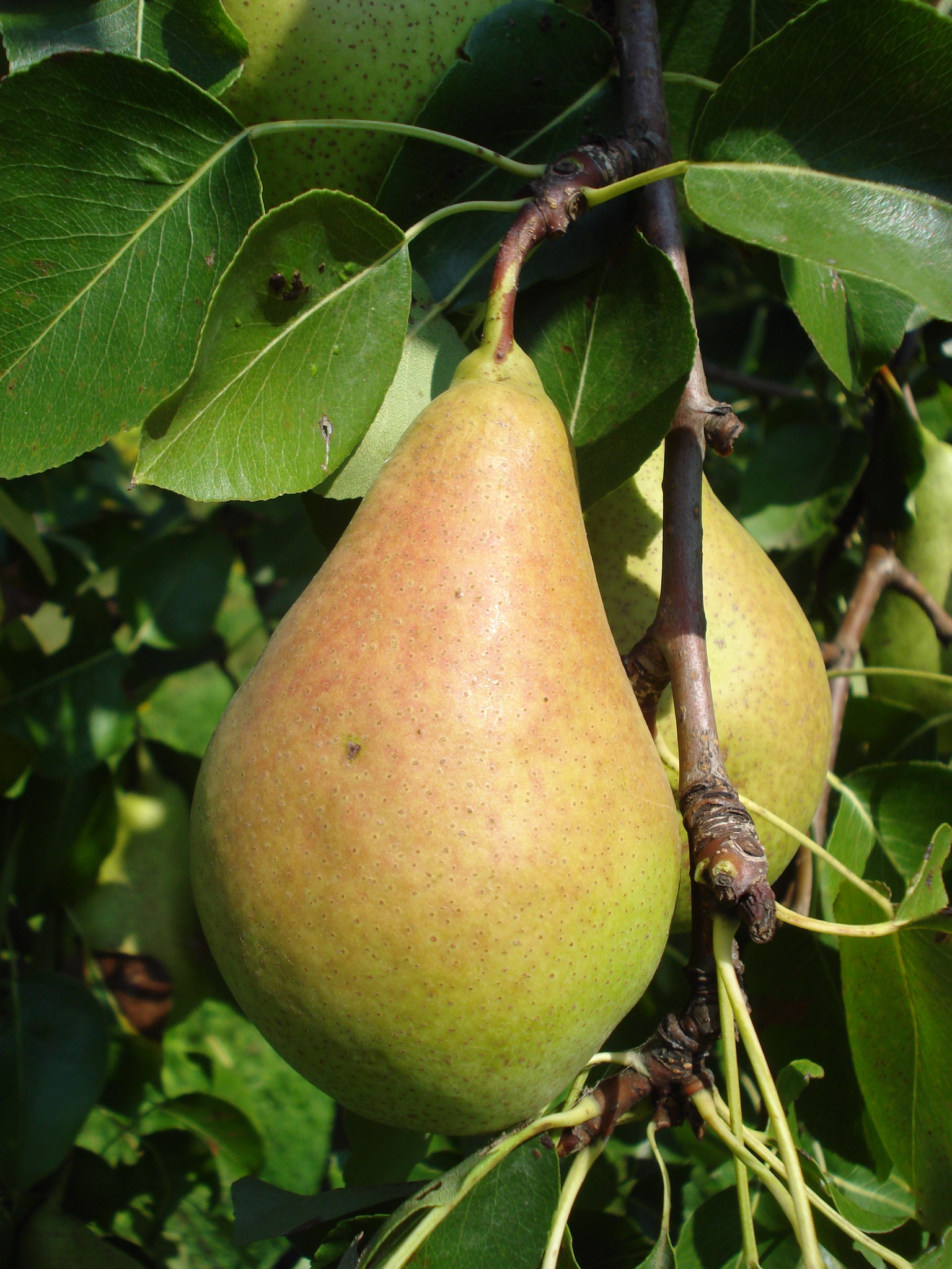 "Vicar of Winkfield" or "Pastor" pear, late ripening (winter) variety, grown in Medjimurje County, northern Croatia